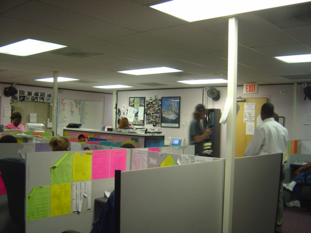 Inside telemarket office during shift.